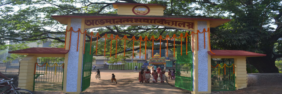 Main gate of Abhedananda Mahavidyalaya